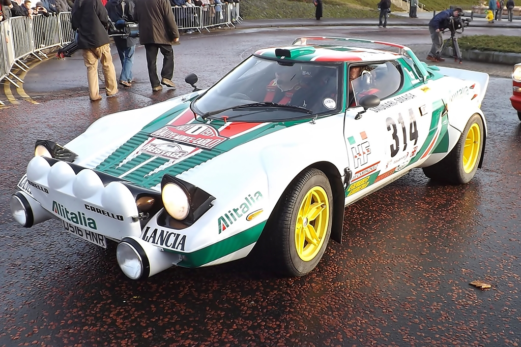 Lancia Stratos Replica approaching the start